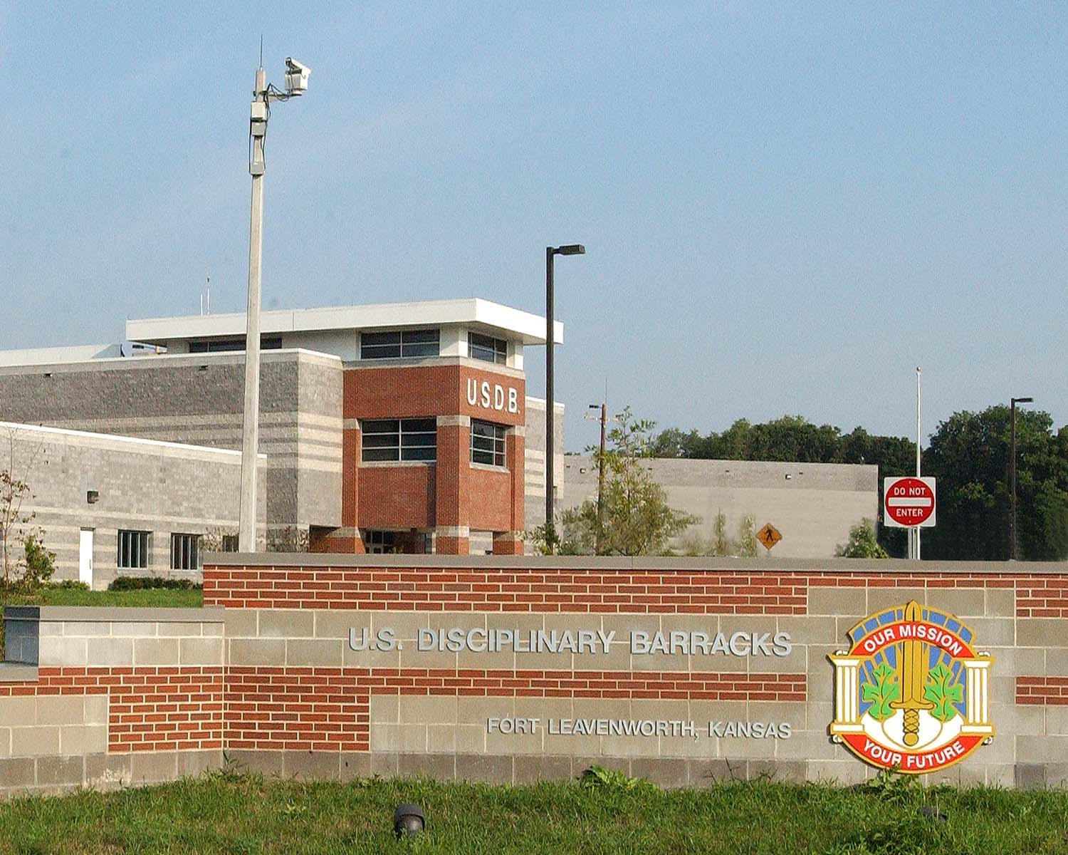 Picture of newest United States Disciplinary Baracks